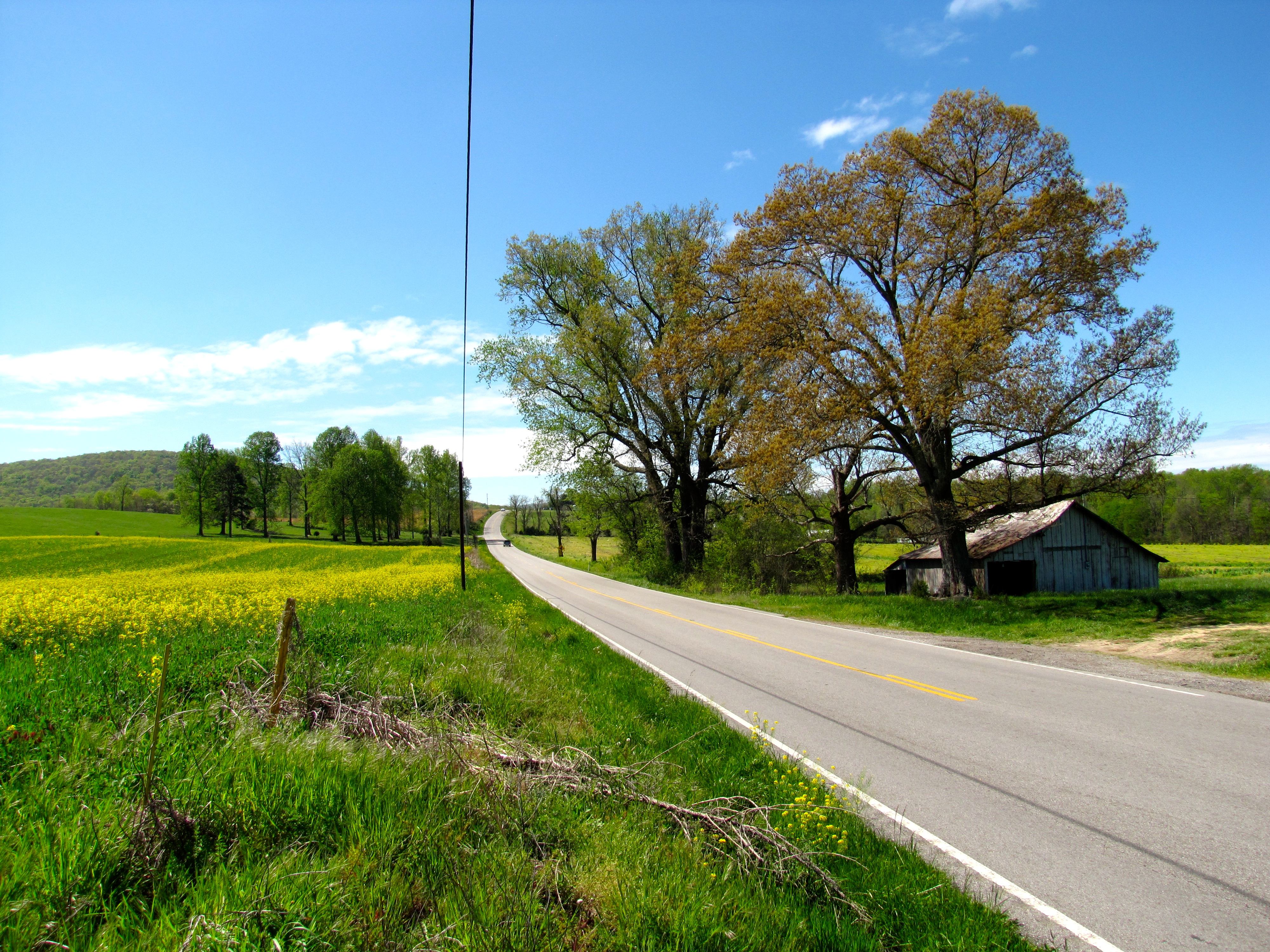 View along State Route 127 between Viola and Hillsboro in Coffee County, Tennessee, United States.